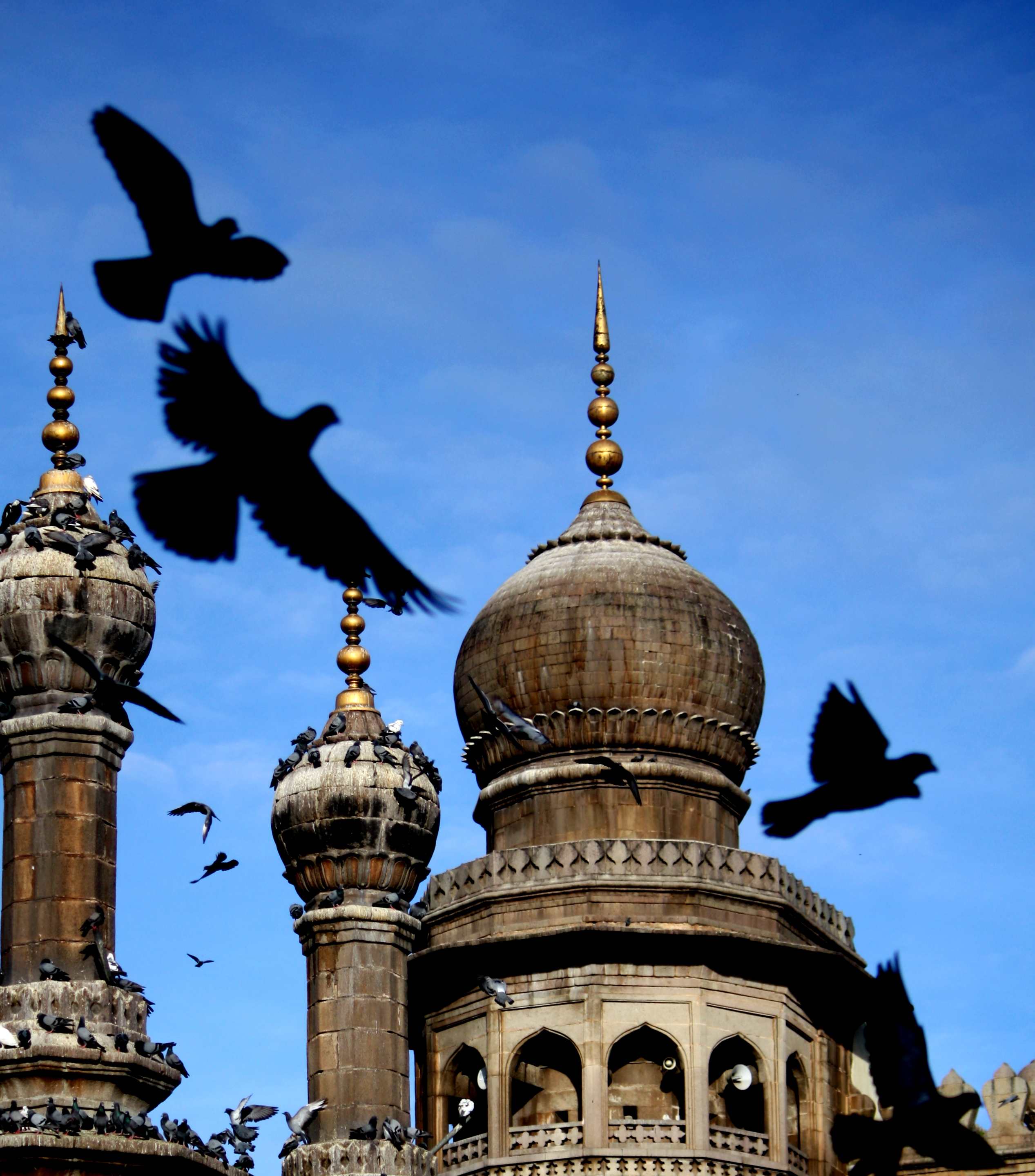 Makkah Masjid (Arabic: and Urdu: مکہ مسجد, Telugu: మక్కా మసీదు,) is one of the oldest mosques in Hyderabad, India and one of the largest mosques in India. Makkah Masjid is a listed heritage building located in the Old City of Hyderabad close to the historic landmarks of Charminar, Chowmahalla Palace and Laad Bazaar. Muhammad Quli Qutub Shah, the fifth ruler of the Qutb Shahi dynasty commissioned bricks to be made from the soil brought from Mecca, the holiest site of Islam and inducted them into the construction of the central arch of the mosque, thus rendering the mosque its name. More information is available on Wikipedia.